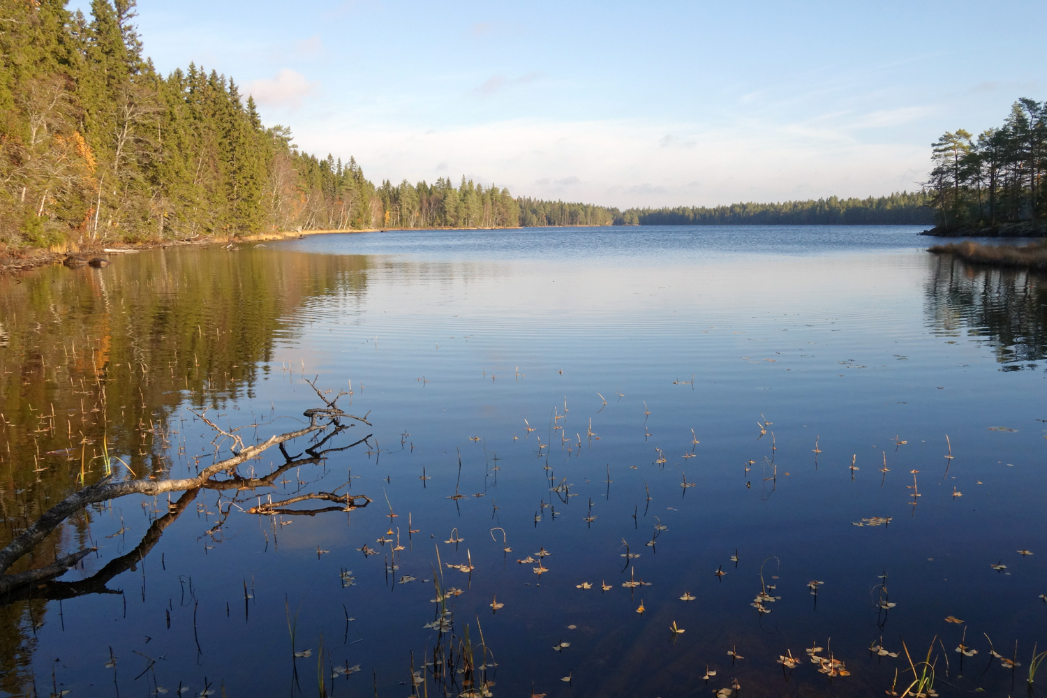 Lake Degersjön in Degersjön Natur Reserve, Umeå Municipality, northern Sweden